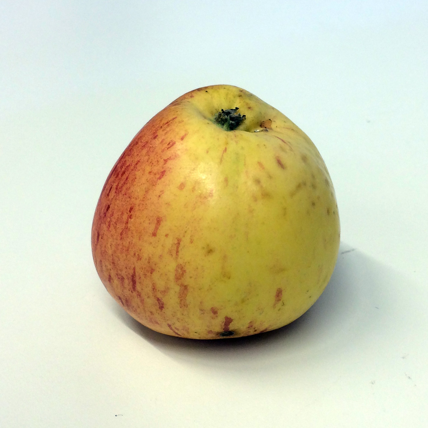 Apple of the cultivar Södermanlandsäpple, photographed in conjunction with the Apple Festival at Nordiska museet, Stockholm, Sweden in September 2014.